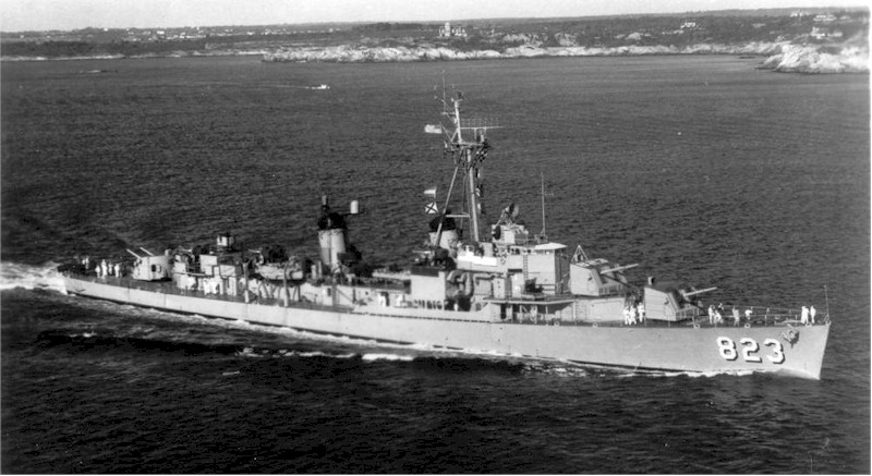 The U.S. Navy Gearing-class destroyer USS USS Samuel B. Roberts (DD-823) underway in Naragansett Bay, circa 1959.